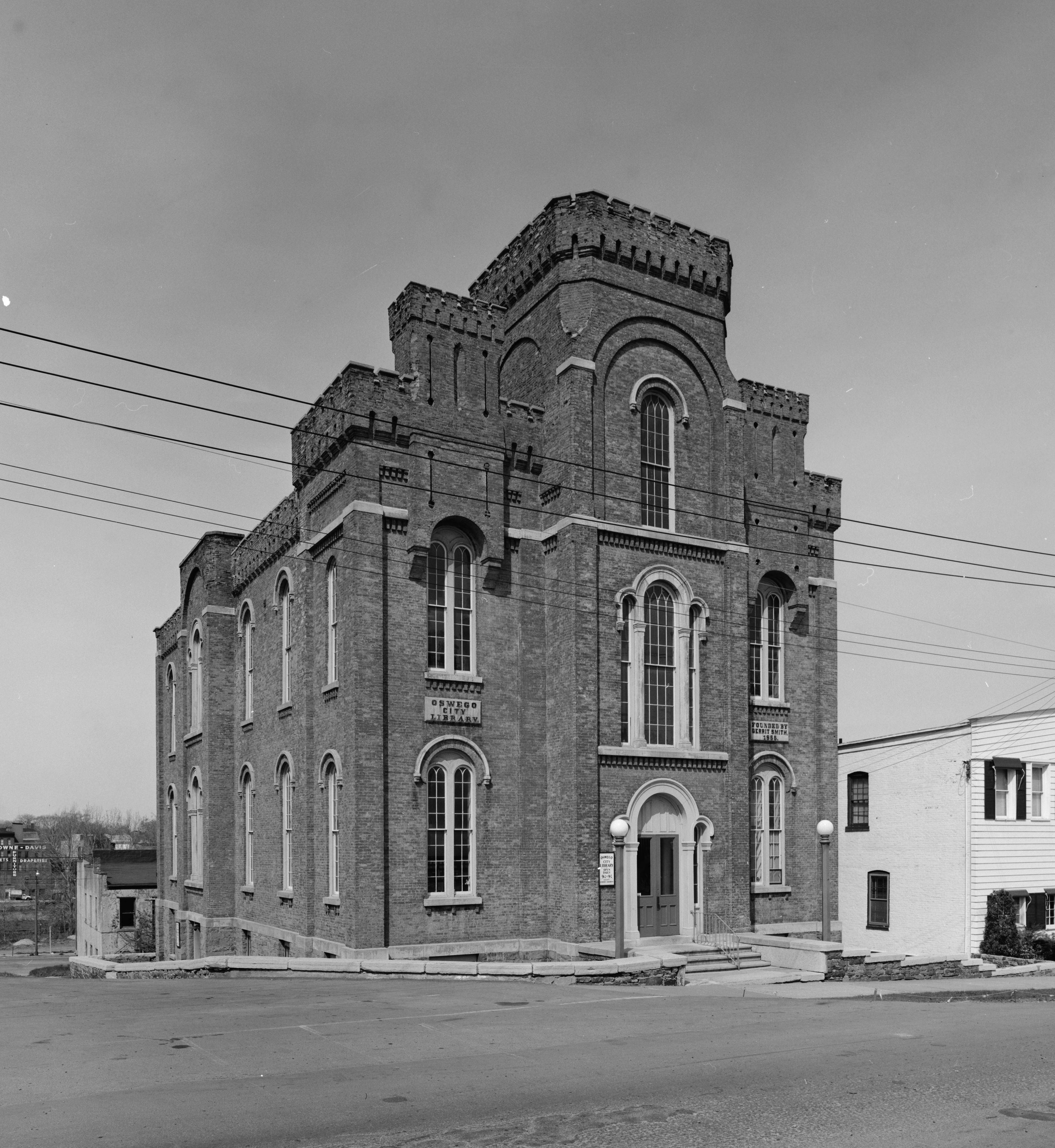 Oswego City Library, East Second & East Oneida Streets, Oswego (Oswego County, New York)